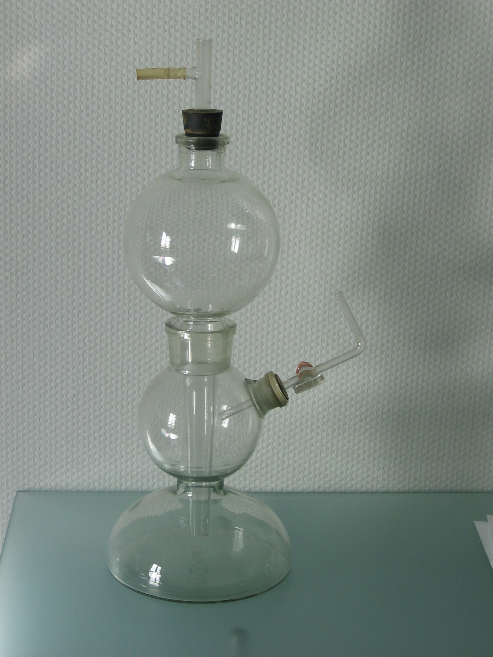 An empty Kipp's apparatus, made from glass.